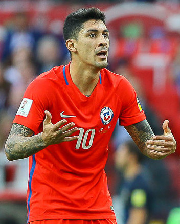 Chile VS. Australia 1 - 1, 25 June 2017